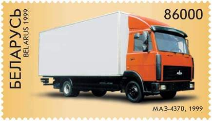 Stamp of Belarus